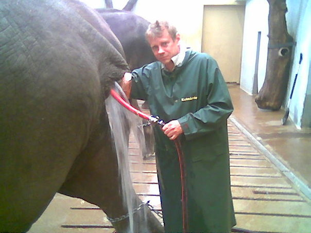 Elephant trainer Dan Koehl by training of rectal examination of Asian elephant at Kolmarden Zoo 2008